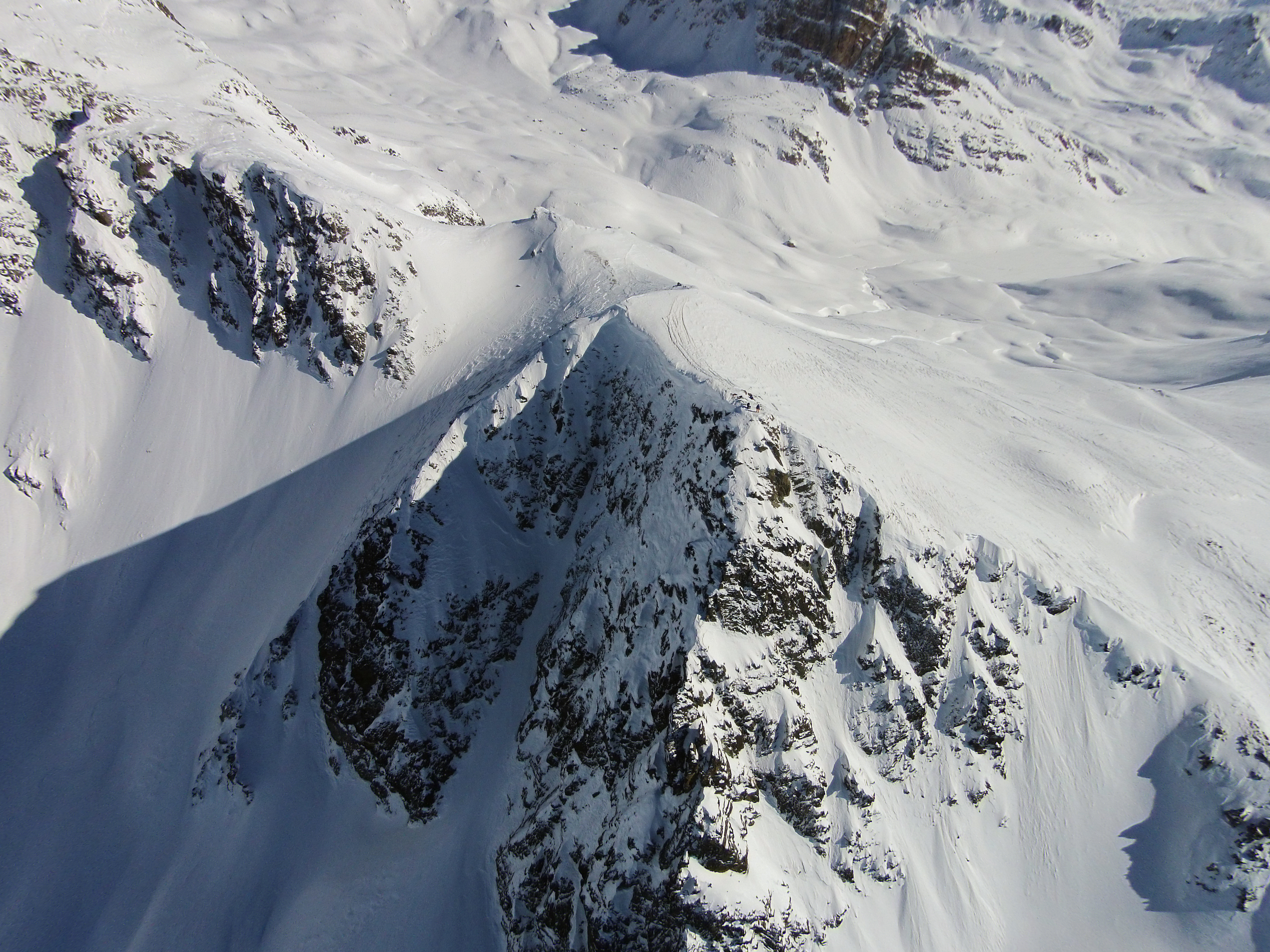 Aerial photograpy of Piz Campagnung (Bivio, Marmorera, Grisons, Switzerland) from west